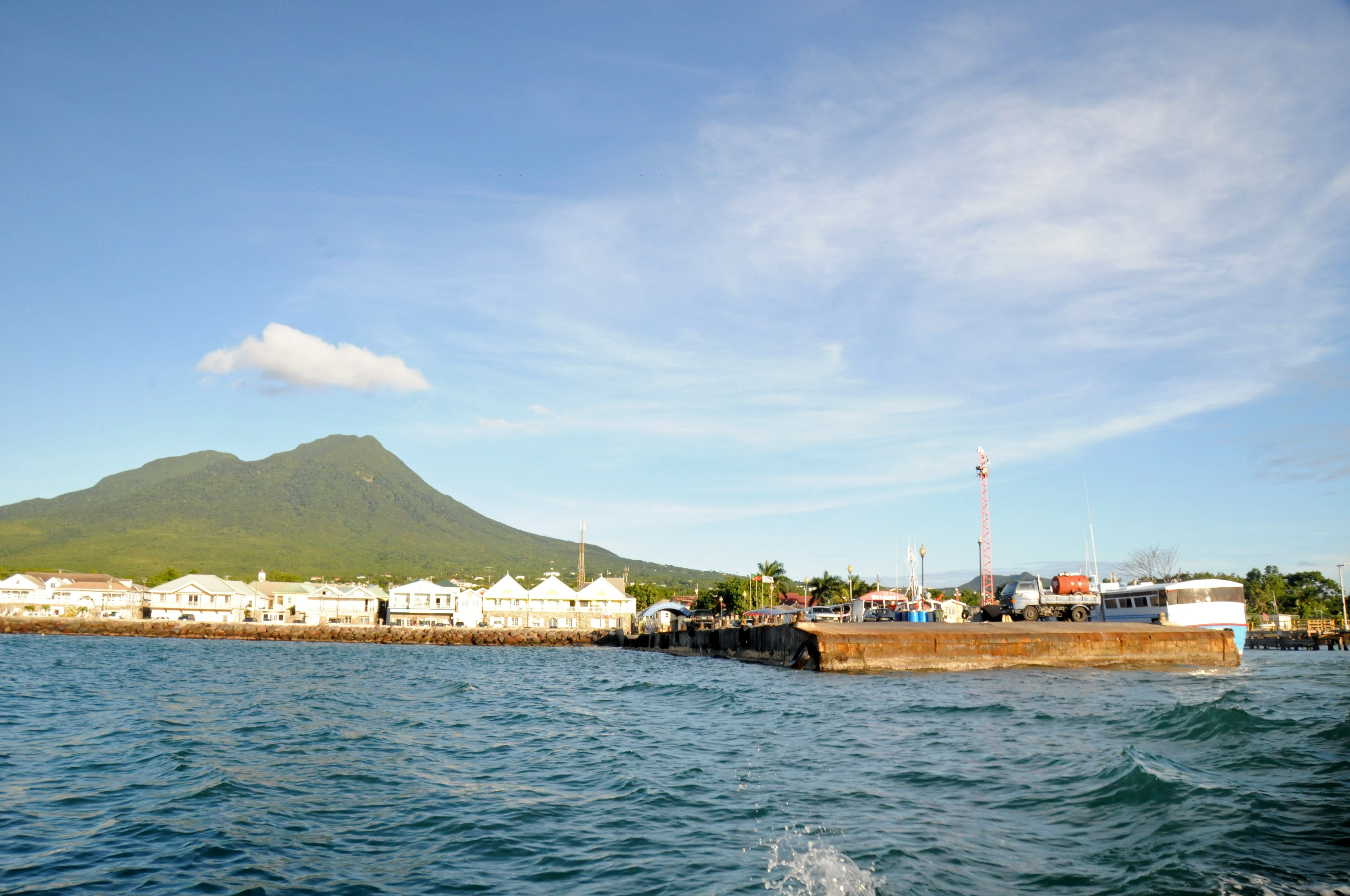 Approaching Charlestown on Nevis - Nevis Peak in the distance